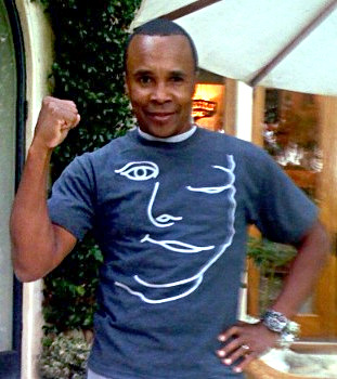 African American boxer Sugar Ray Leonard